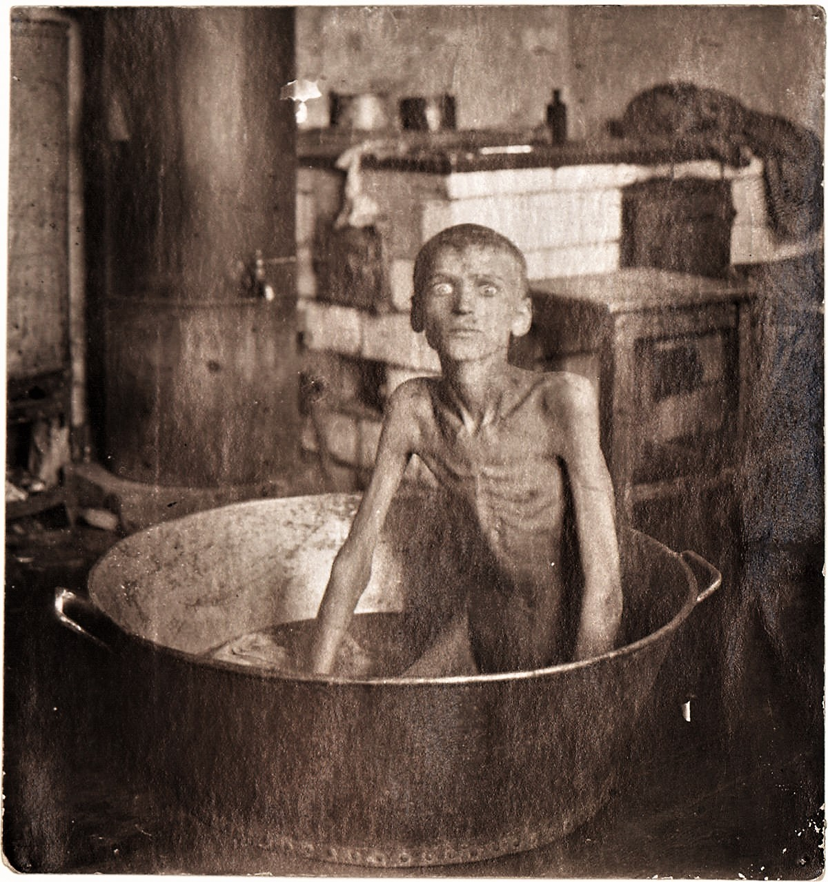 A boy from village Blahovishchenka (Zaporizhzhia gubernia, Ukraine) - Ilarion Nyshchenko - from starvation killed his 3 year old brother and ate him (1921-1922)